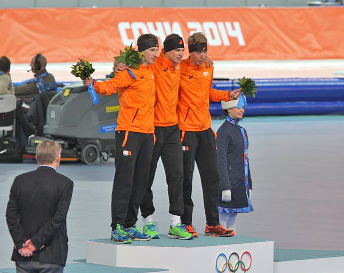 Men's 5000m, 2014 Winter Olympics, Podium